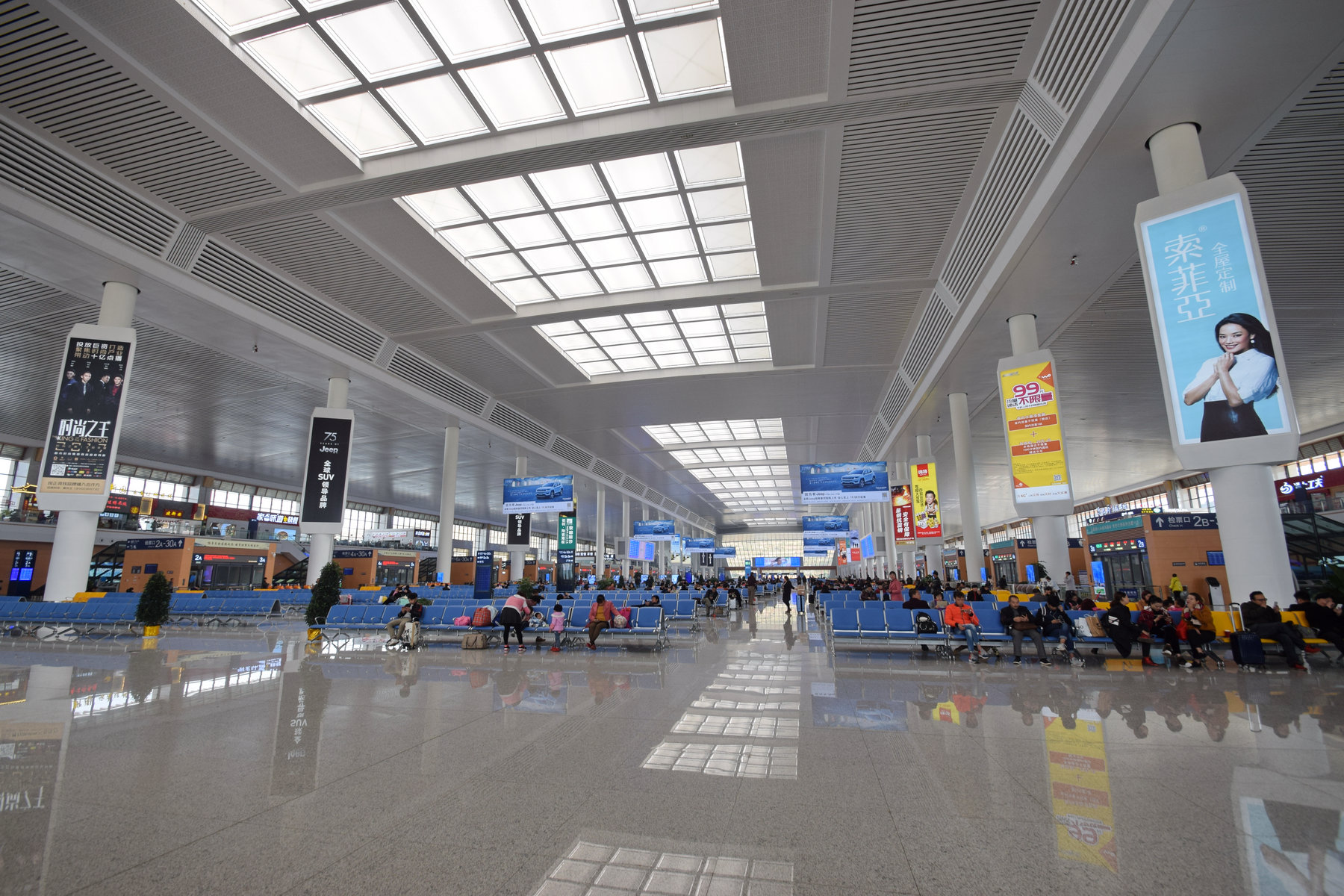 2/F Concourse of Kunming Nan (South) Railway Station